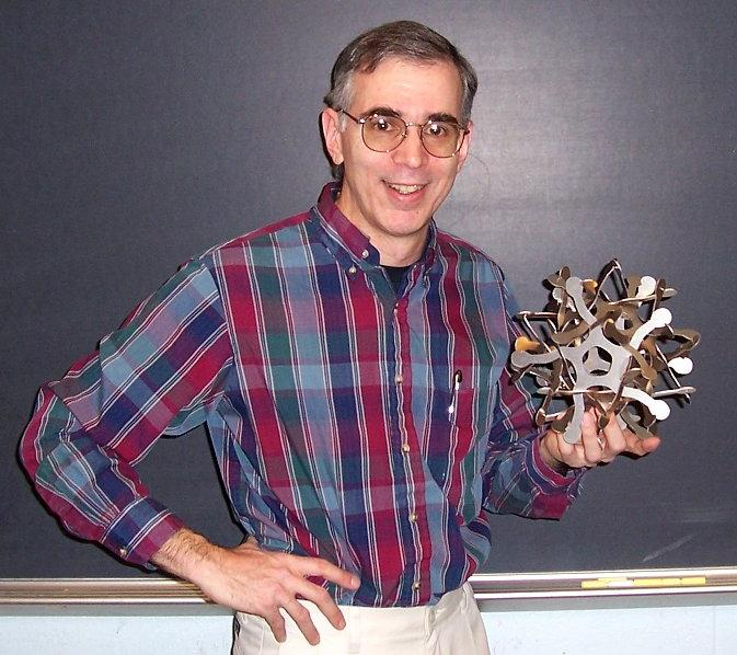 GFDL license from author From: "George W. Hart" To: "Mark Nowotarski" Sent: Friday, December 29, 2006 11:09 AM Subject: Re: picture for wikipedia Mark, Thanks again for the article. I am happy to have the image listed as public domain or GFDL. George